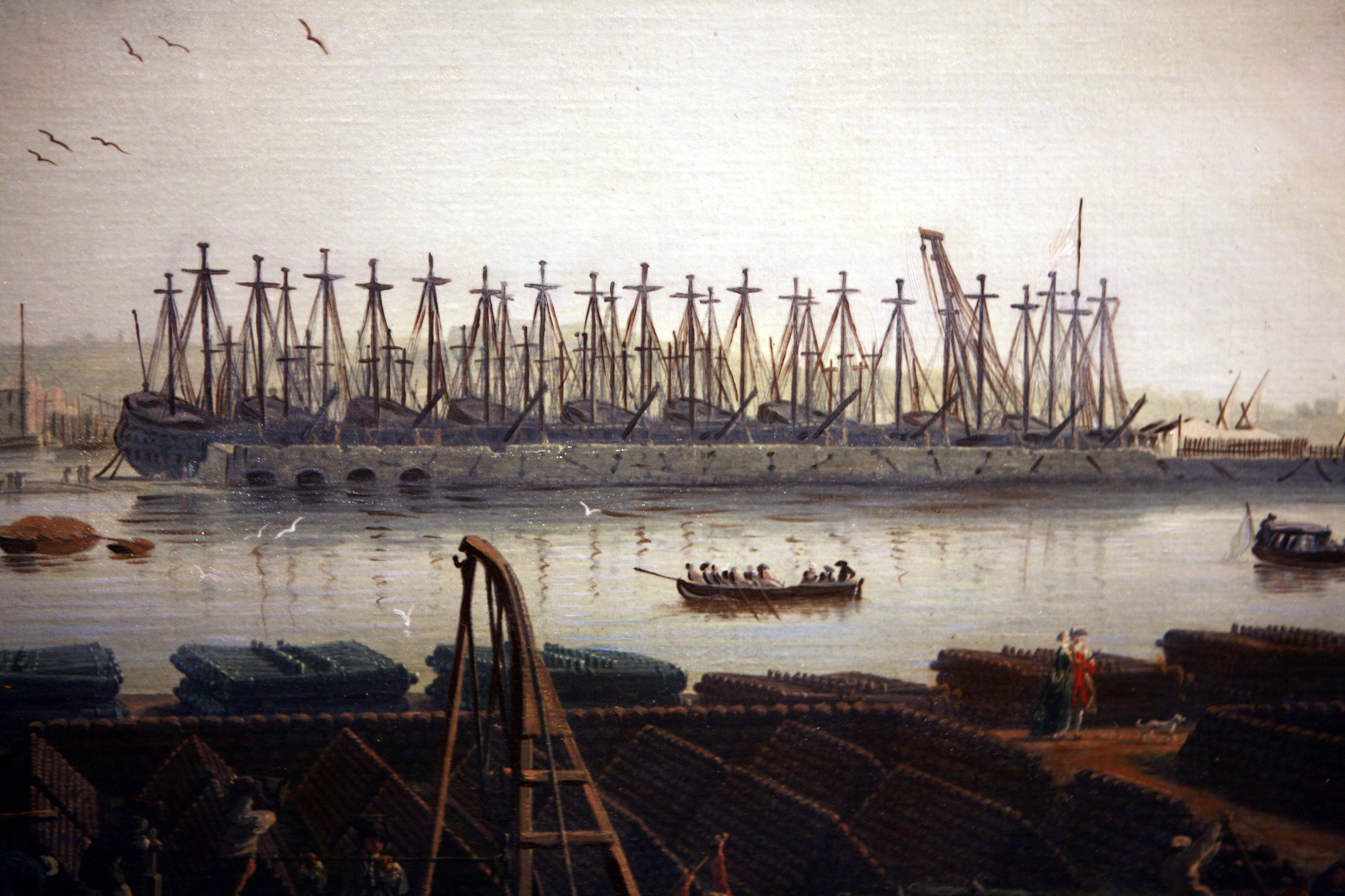 Series of paintings of the harbours of France